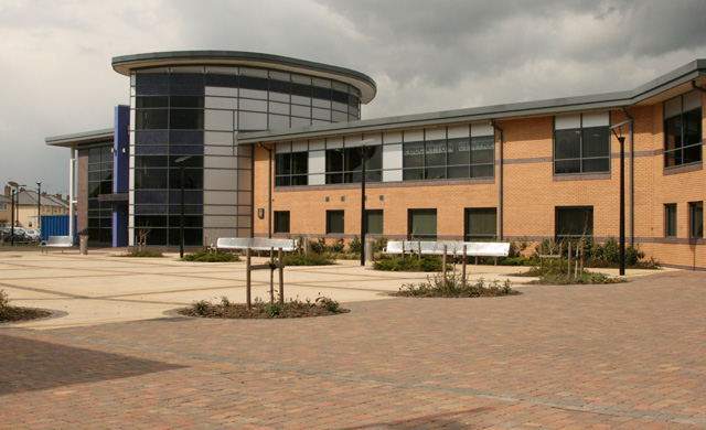 The Freedom Centre, Preston Road, Hull Library, theatre, Adult Education, friendly staff, multi-purpose building.